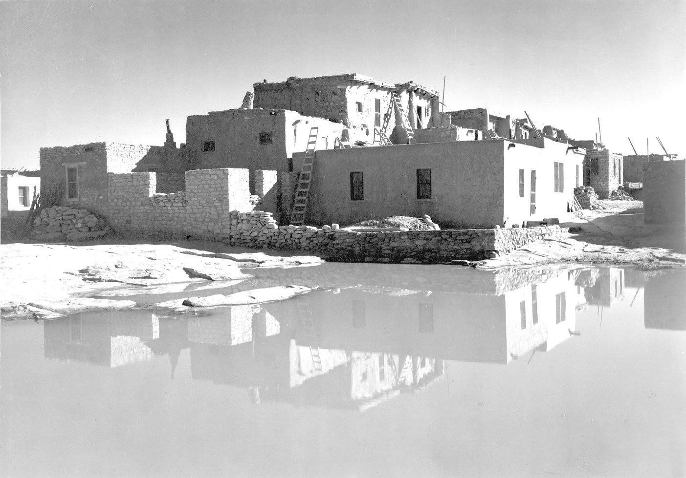 Acoma Pueblo and its reflection in a pool of water, New Mexico.